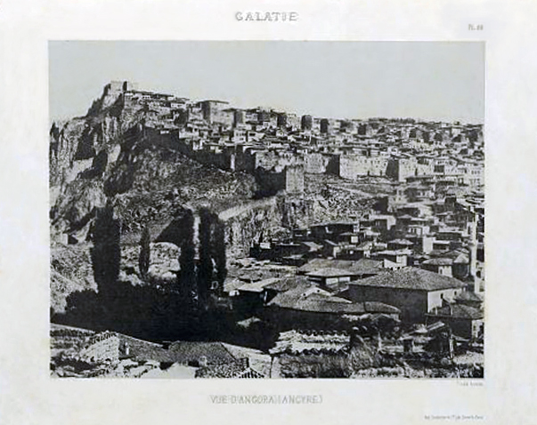 View of Ankara (Ancyre) 1872